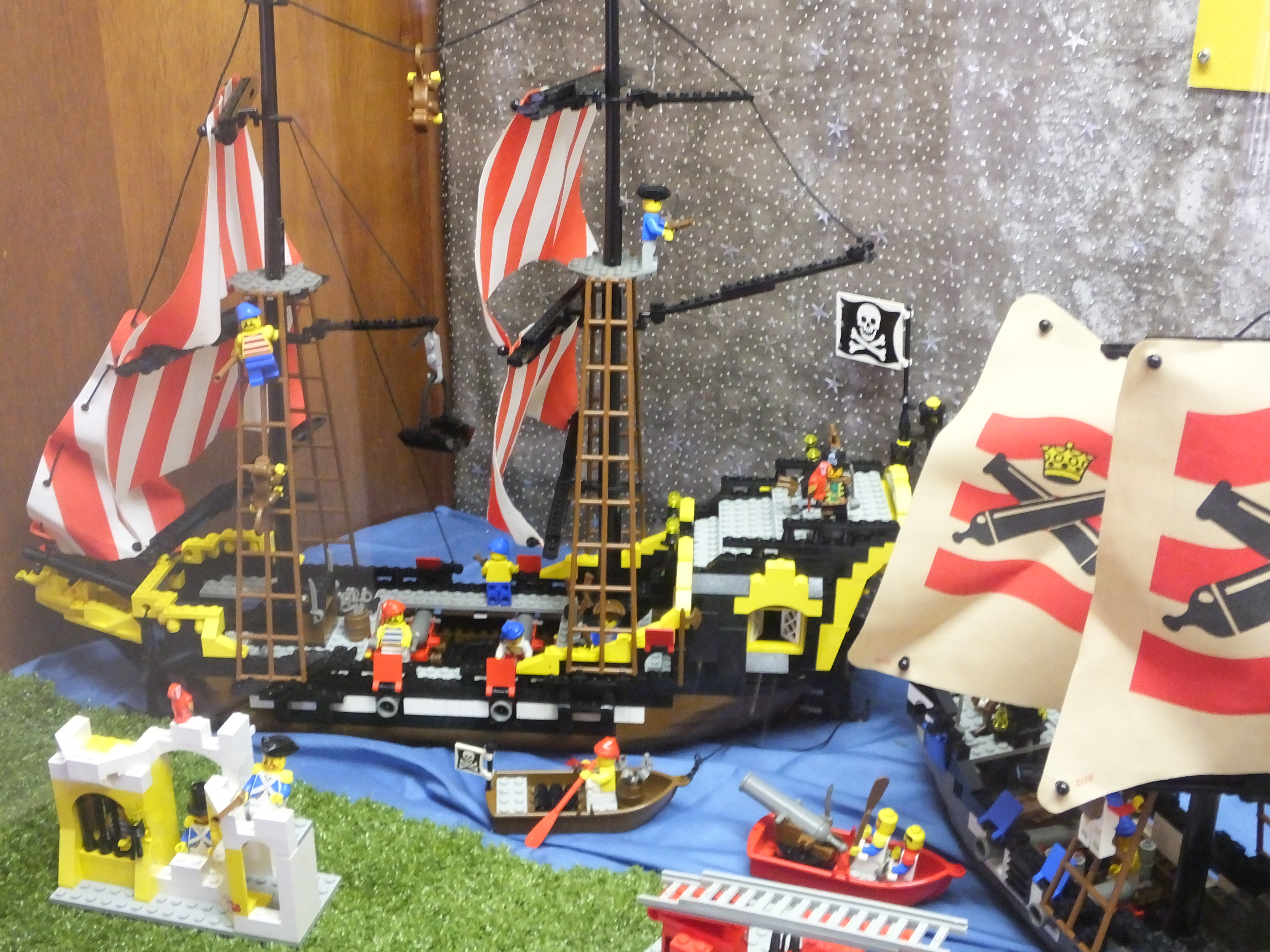 Taken during the tour and editathon at the Judges' Lodgings, Lancaster. The upper floor of the museum contains the Childhood collection. The Lego company of the Kristiansen family launched the Lego brick, 8 stud binding brick in 1948. 'Leg godt'- play good, in 1953 they were branded as 'Lego mursten'. In 1959 British Lego Ltd is established. The wheel was launched in 1962, and in 1964 themed model sets. Duplo followed in 1969, Lego Technic in 1977.